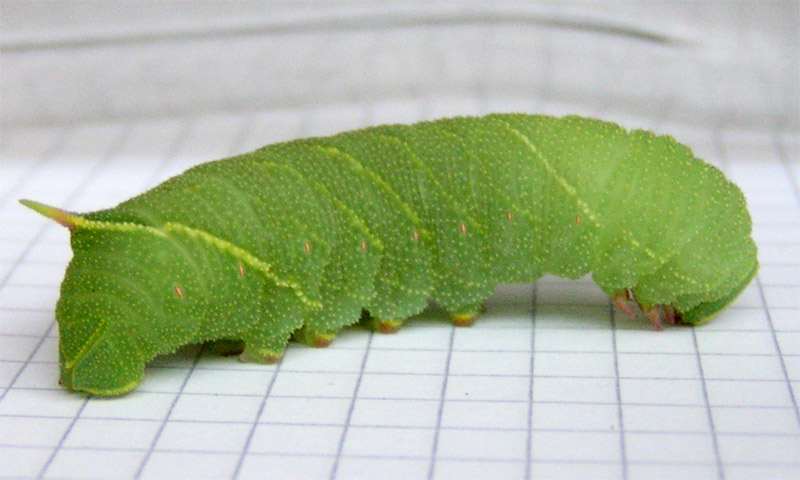 Laothoe populi München-Schwabing